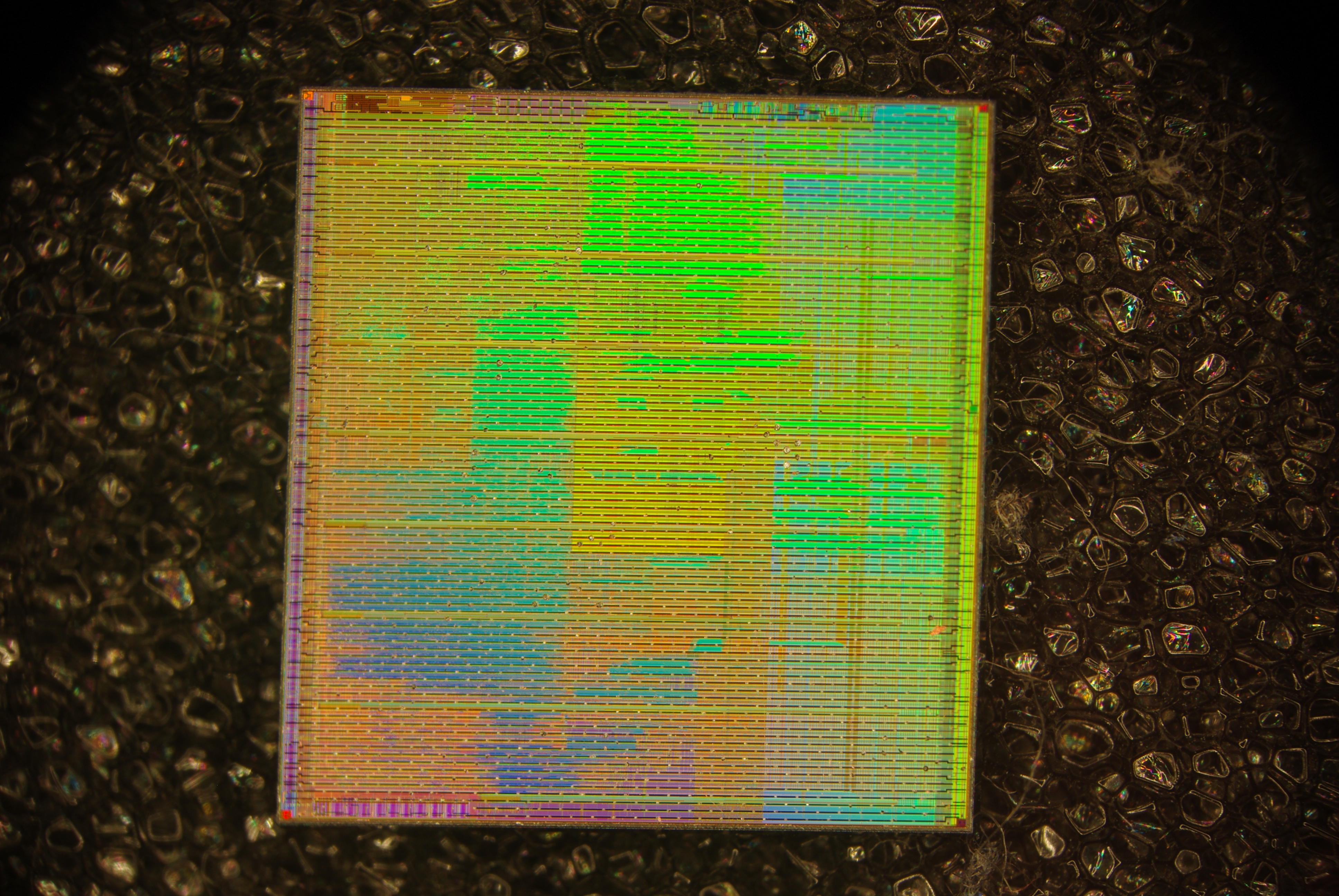 Looks mysterious. Still keeps its secrets under connection layers